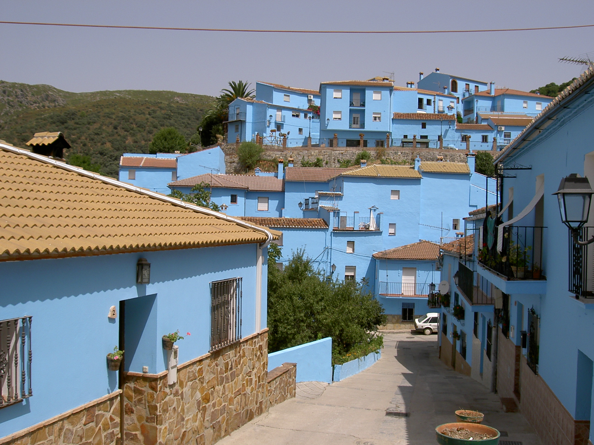 Entire town of Júzcar painted blue by Sony Pictures.